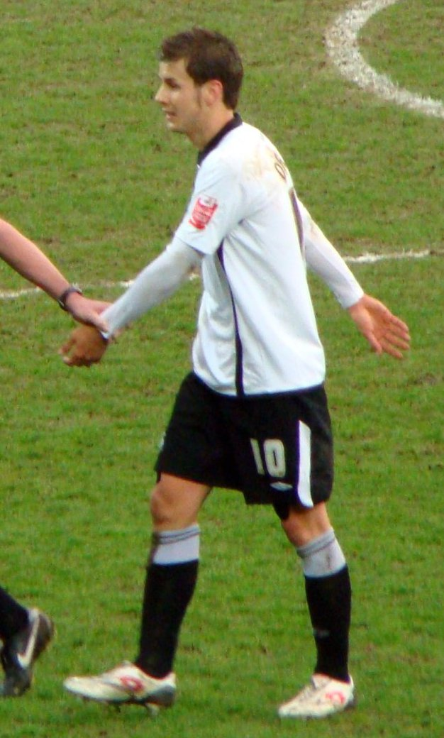 Andrea Orlandi 03/04/10 Cardiff V Swansea, Chamionship, Cardiff City Stadium, Cardiff, Wales